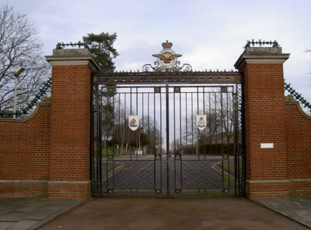 St. Andrew's Gate. Uxbridge The official entrance into RAF Uxbridge. The shields on the gates have now been removed since the closure of the RAF station, but the emblem of the RAF at the top is still there.